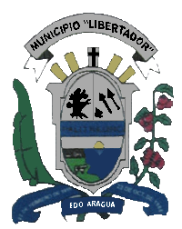 Coat of arms of Libertador municipality. Aragua state, Venezuela